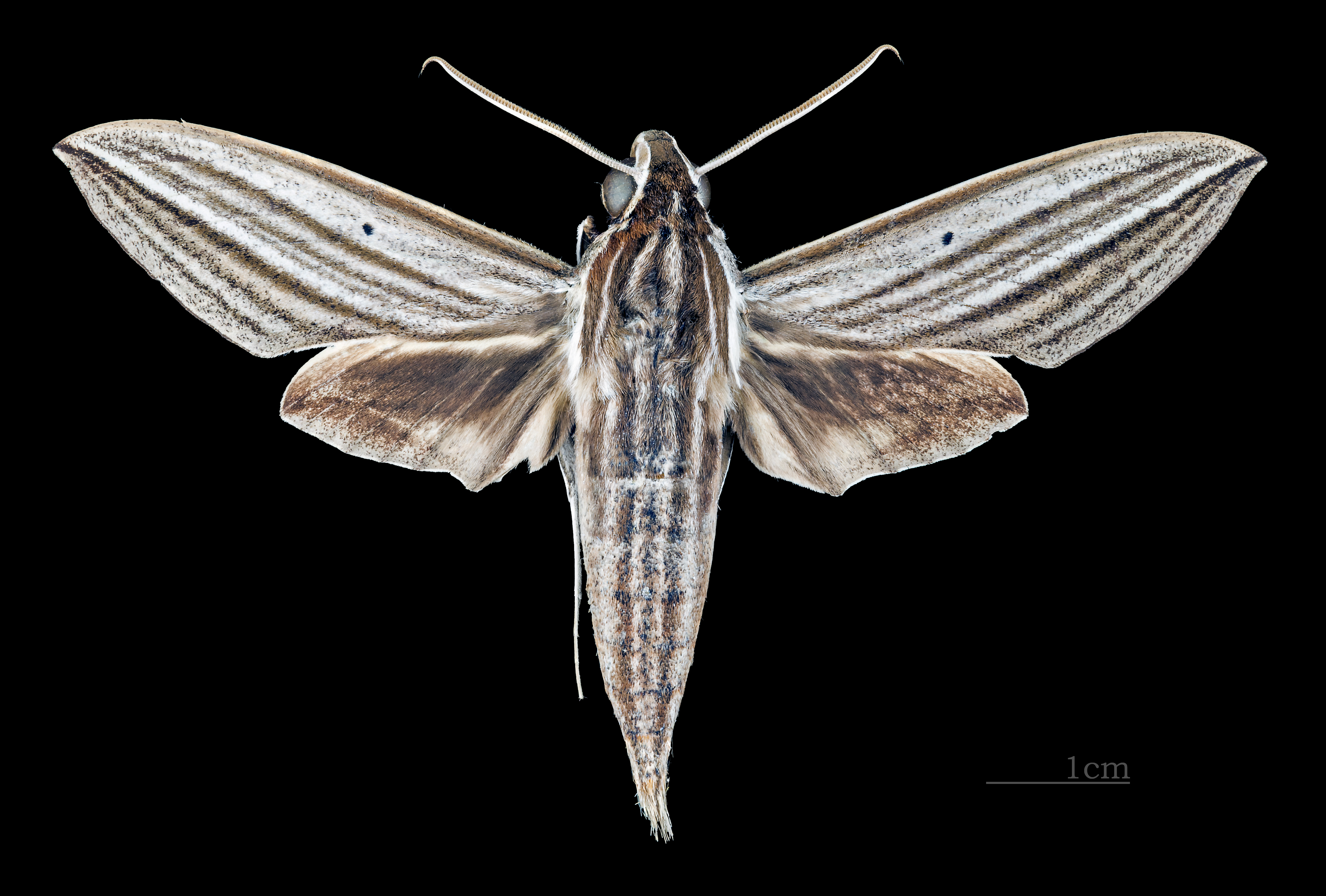 Theretra polistratus - Dorsal side Collection of the Mathematician Laurent Schwartz